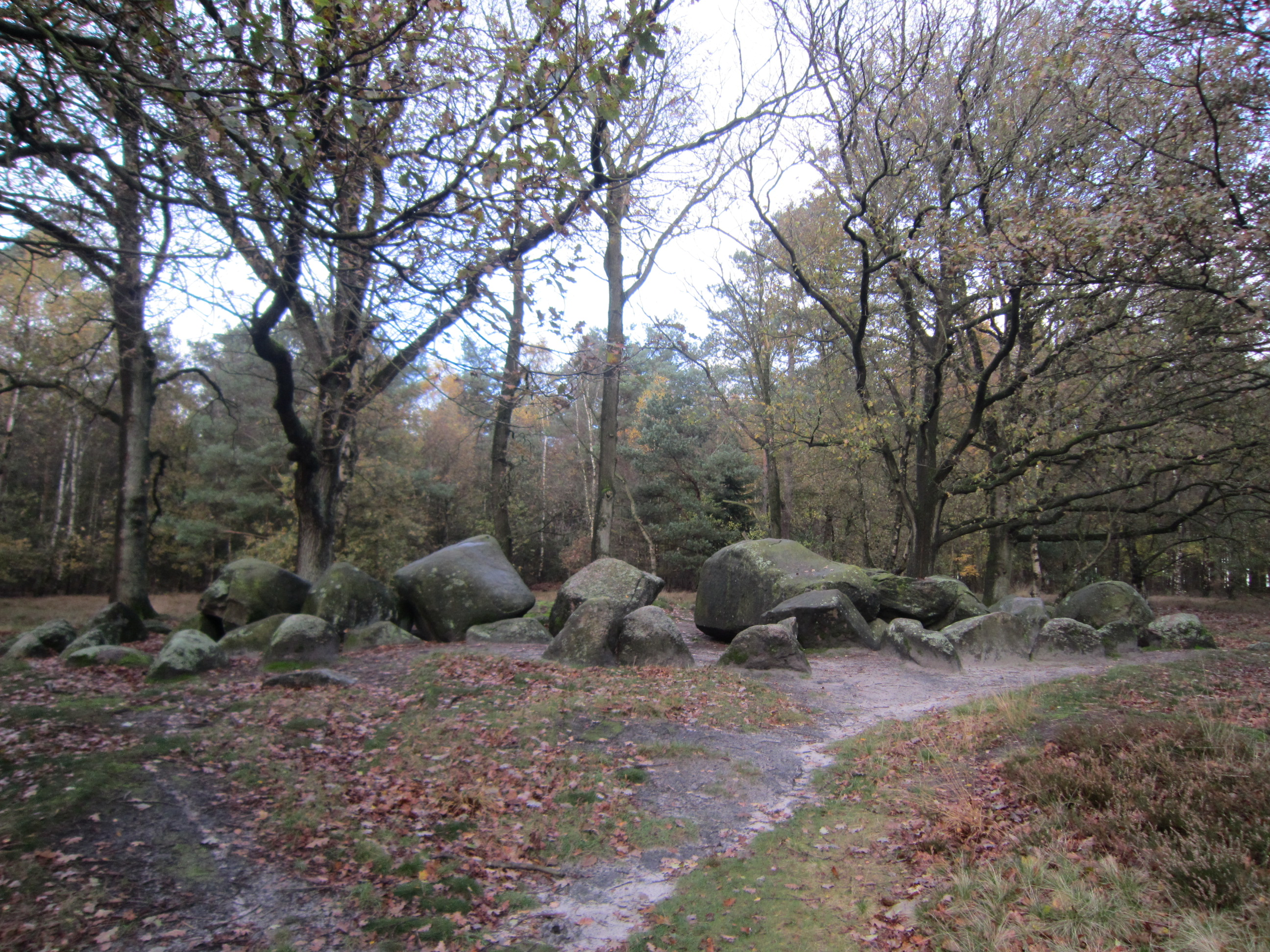 "Königsgrab" in Groß Berßen